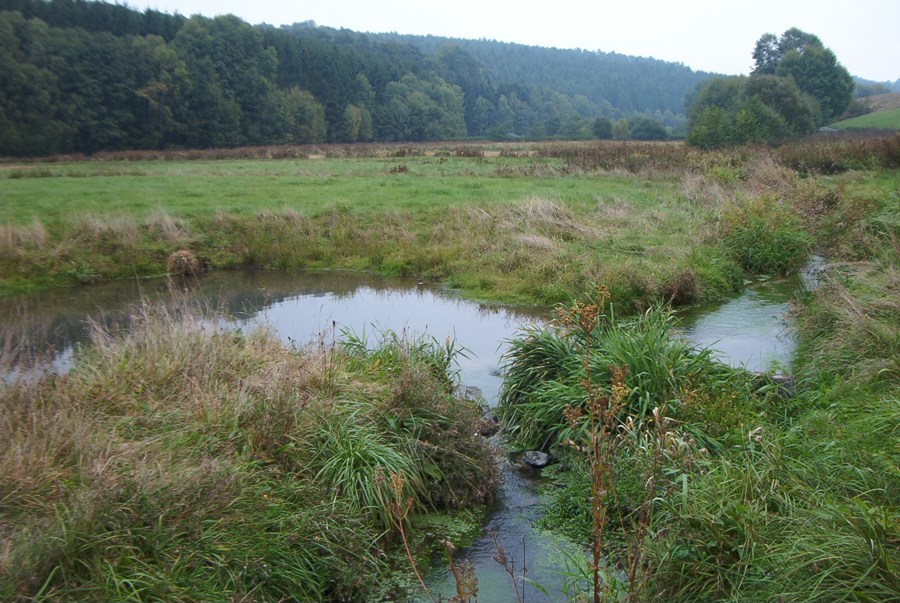 Wetschaft in the Henzeried near Rosenthal-Roda, Germany